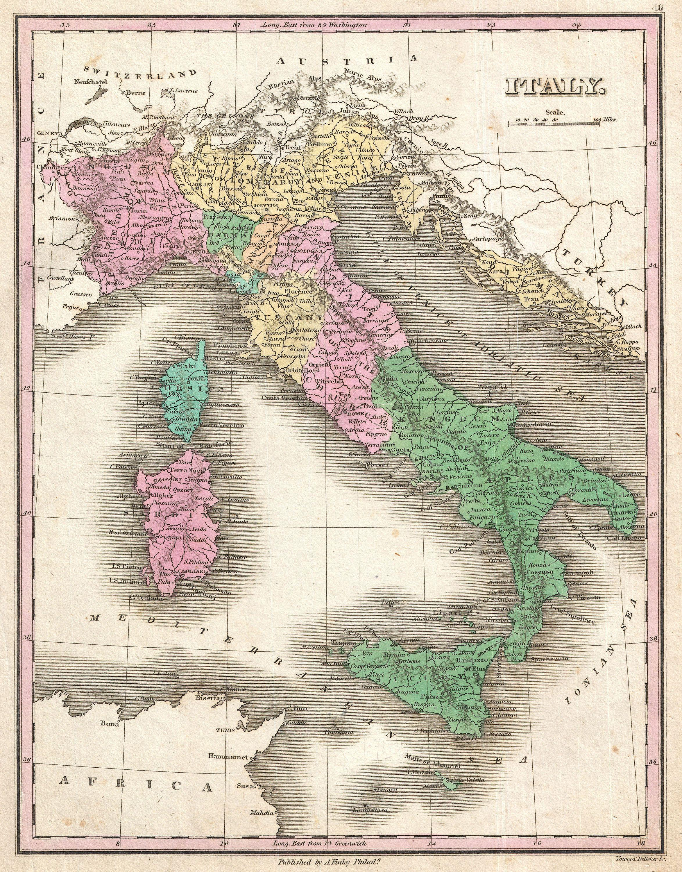 This is Finley’s desirable 1827 map of Italy. Depicts the Italian peninsula from Austria and Switzerland to Sicily and Malta. Includes the Islands of Sardinia and Corsica as well as Dalmatia across the Adriatic. Shows river ways, roads, canals, and some topographical features. The predates the Italian solidarity movement and consequently, the peninsula is divided into an assortment of kingdoms, duchies, republics and states. Color coding defines traditional regional divisions. Mile scales and title in upper right quadrant. Engraved by Young and Delleker for the 1827 edition of Anthony Finley's General Atlas .